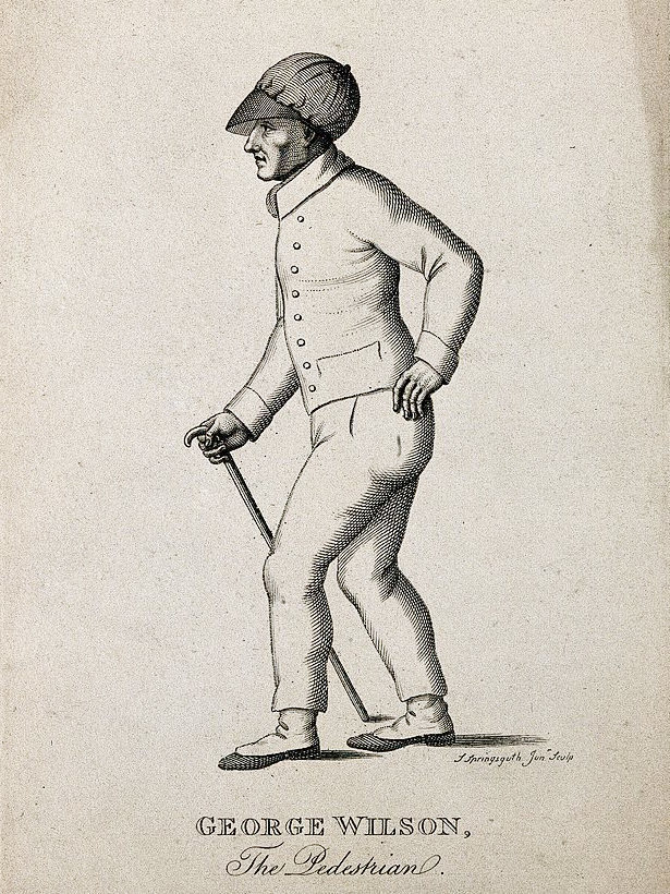 A depiction of George Wilson (The Blackheath Pedestrian) walking.